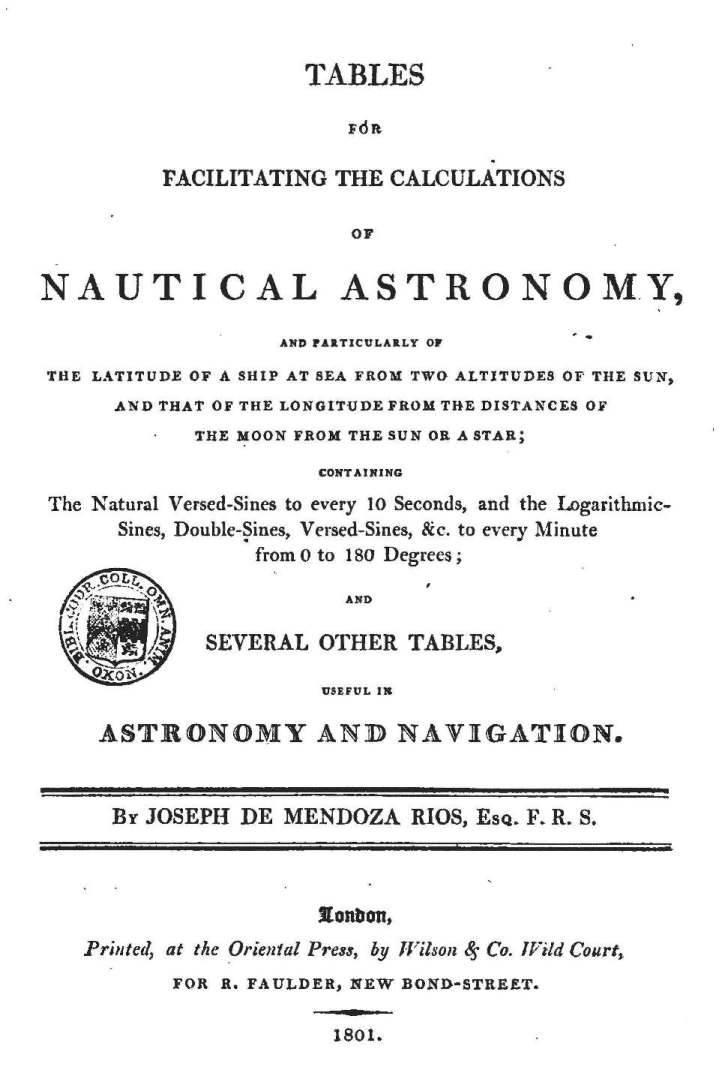 Tables for facilitating the calculations of nautical astronomy. Mendoza y Ríos